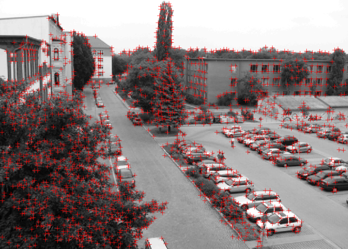 Image with characteristic points (Harris Corner Detector)